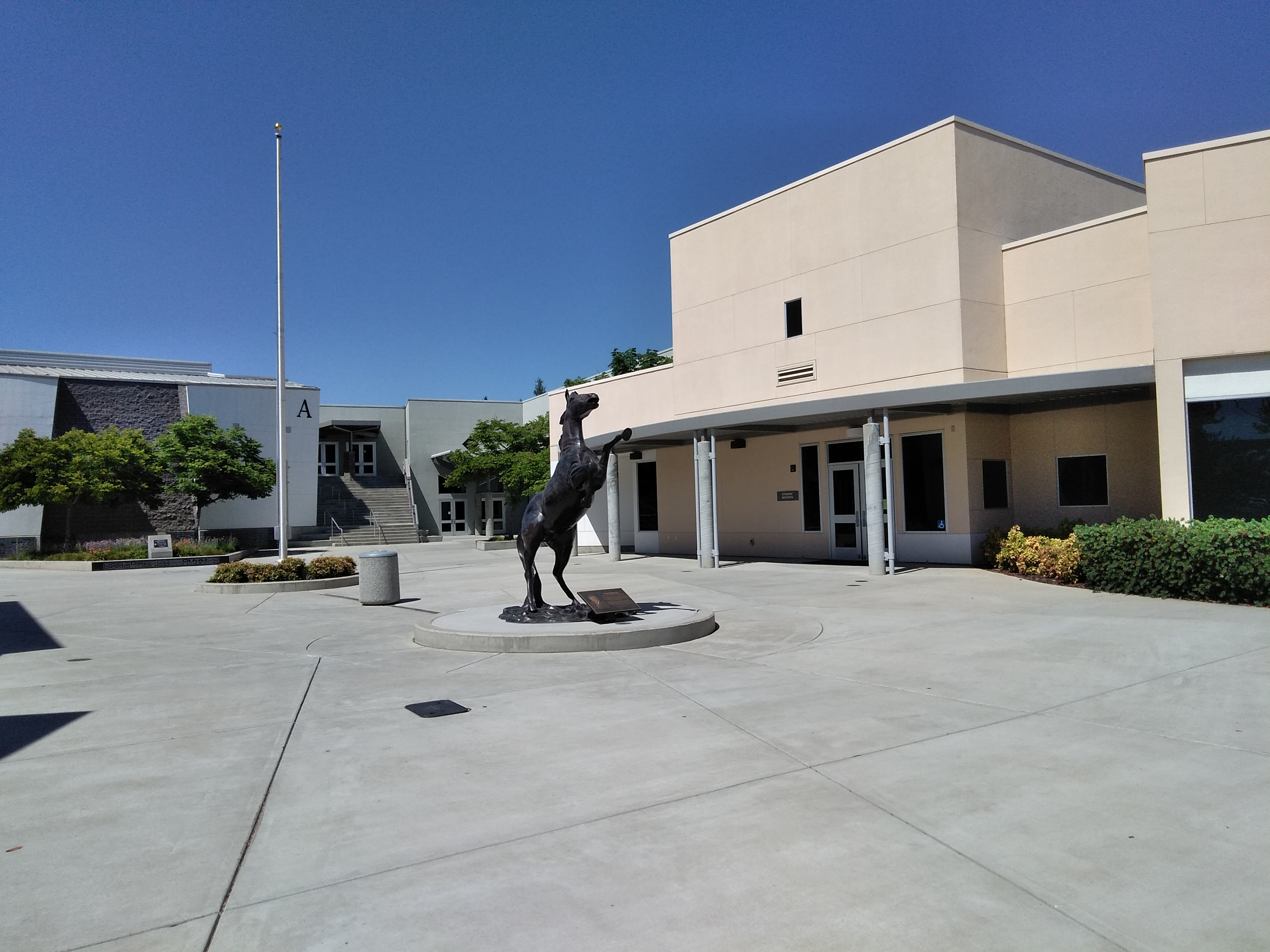 The statue of a bronco is displayed in front of the school.